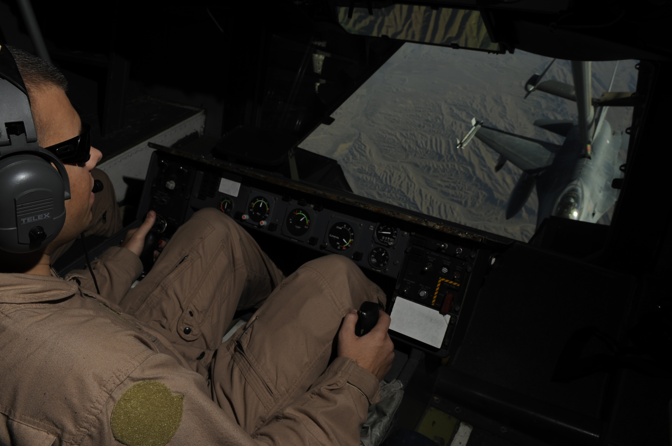 U.S. Air Force Staff Sgt. Justin Brundage, a KC-10 Extender aircraft boom operator from the 908th Expeditionary Air Refueling Squadron, refuels a Royal Netherlands air force F-16 aircraft over Afghanistan on June 18, 2009.